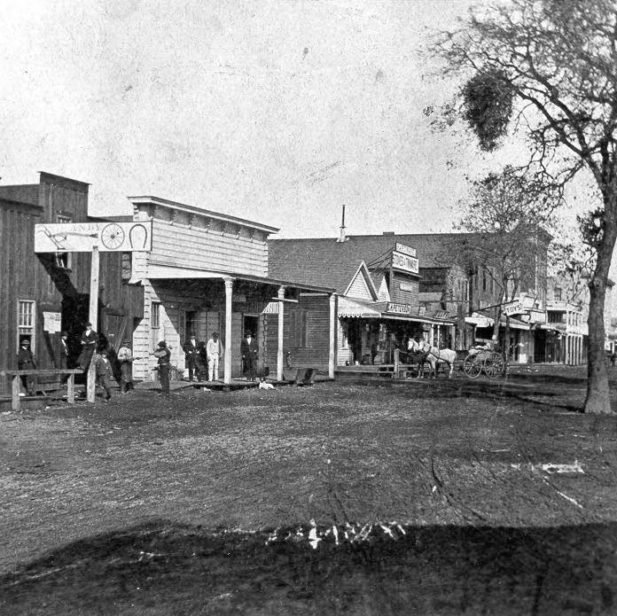 West Street, Healdsburg, California.